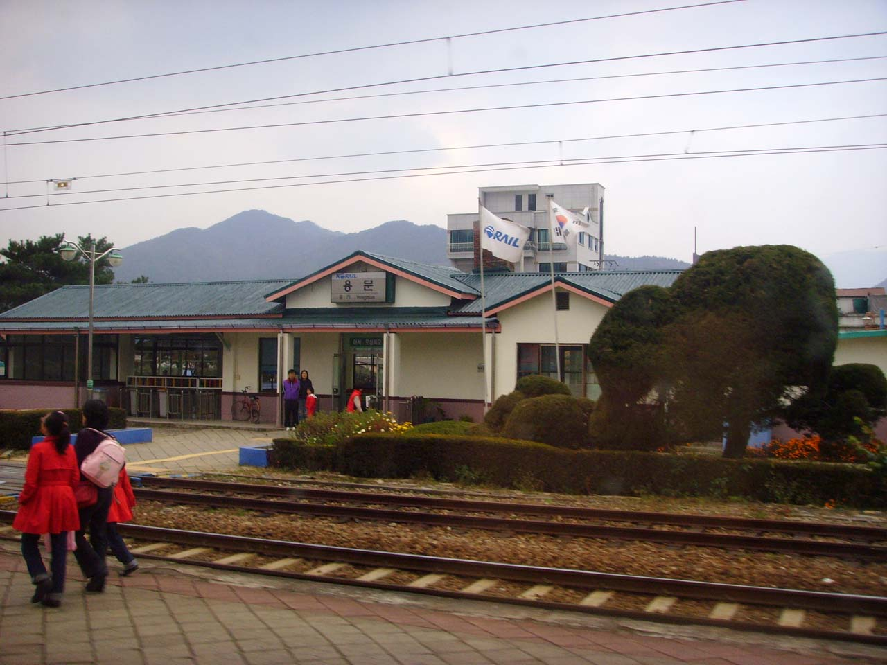 Jungang Line Yongmun Station